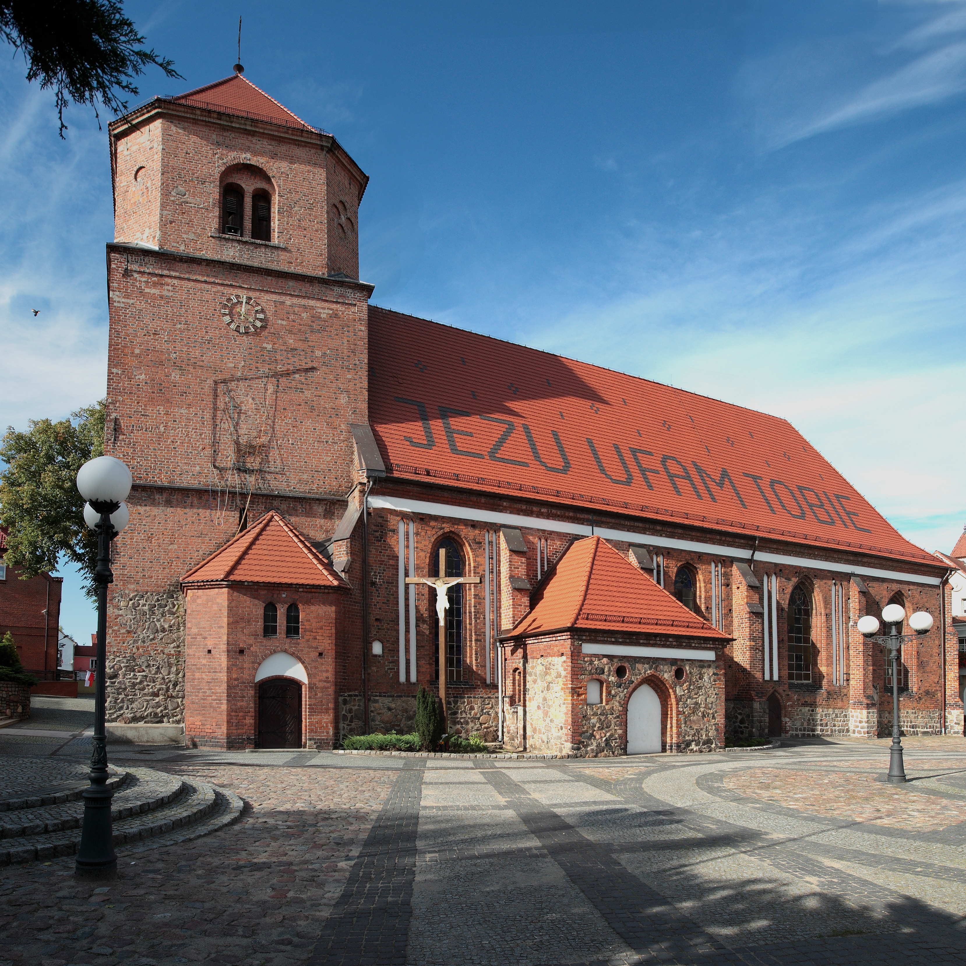 Sulęcin - church, XIII, XIV, 1951